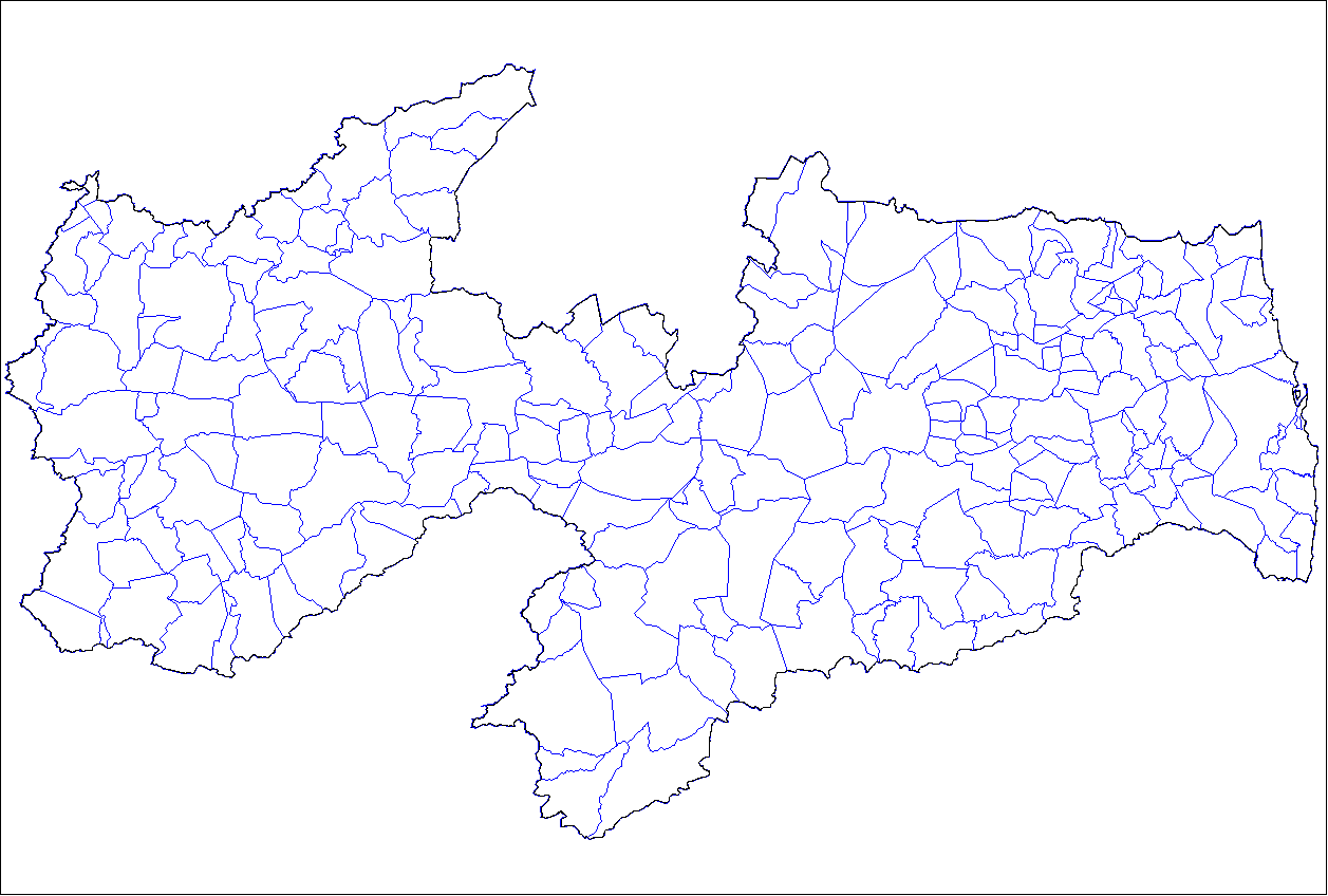 Map of the municipalities of the state of Paraiba, Brazil. Created by Rarelibra 22:05, 24 August 2006 (UTC) for public domain use. Created using MapInfo Professional v8.5 and various mapping resources.